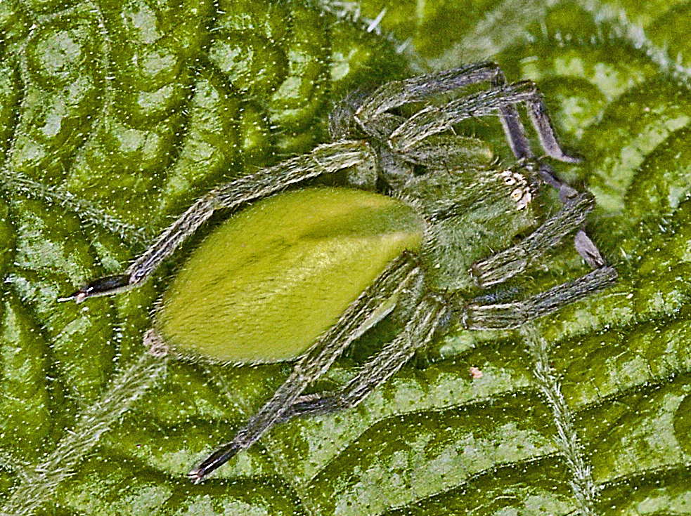 Female of Micrommata ligurina, Creto, Genova, Italy